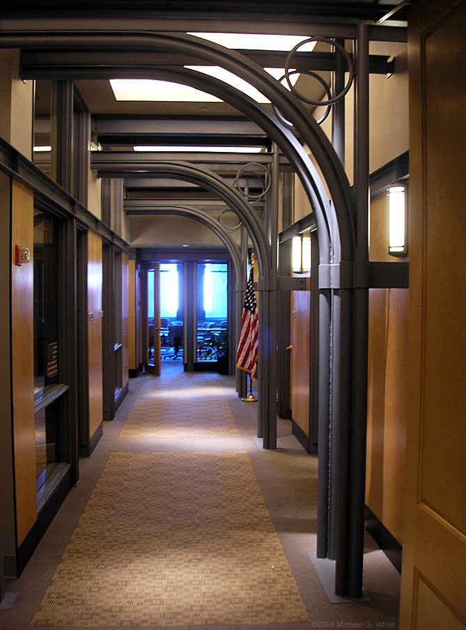 Fourth floor of the Cathedral of Learning at the University of Pittsburgh. At one time, when this photo was taken, this spaced served as the home to the College of General Studies.